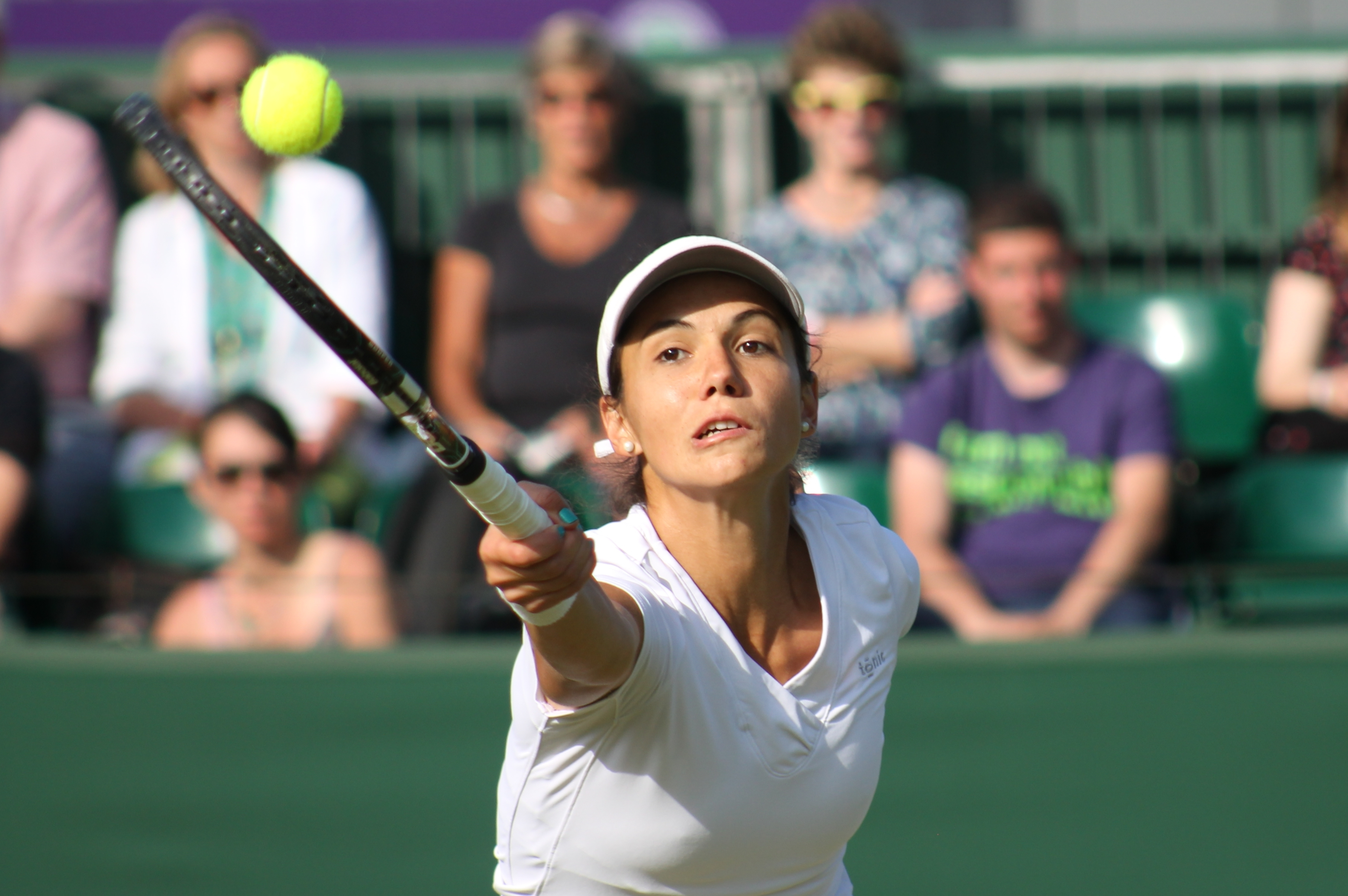 Raluca Olaru plays in the second round of the Womens Doubles on Court 16, Wimbledon on 24 June 2013; partner was Olga Savchuk (UKR); opponents were Shuko Aoyama (JAP) & Chanelle Scheepers (RSA)